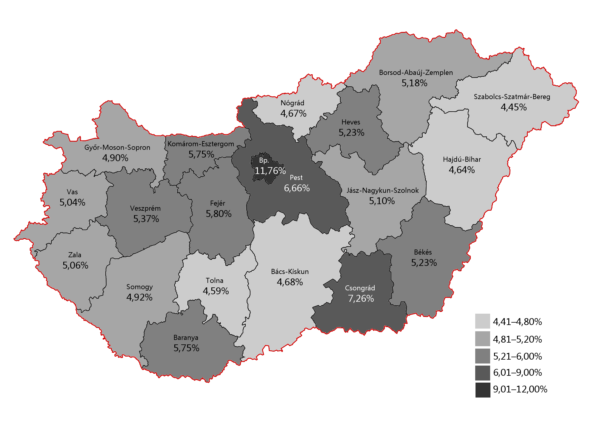 Invalid ballots as a percentage of total votes in the quota referendum in Hungary, 2016.